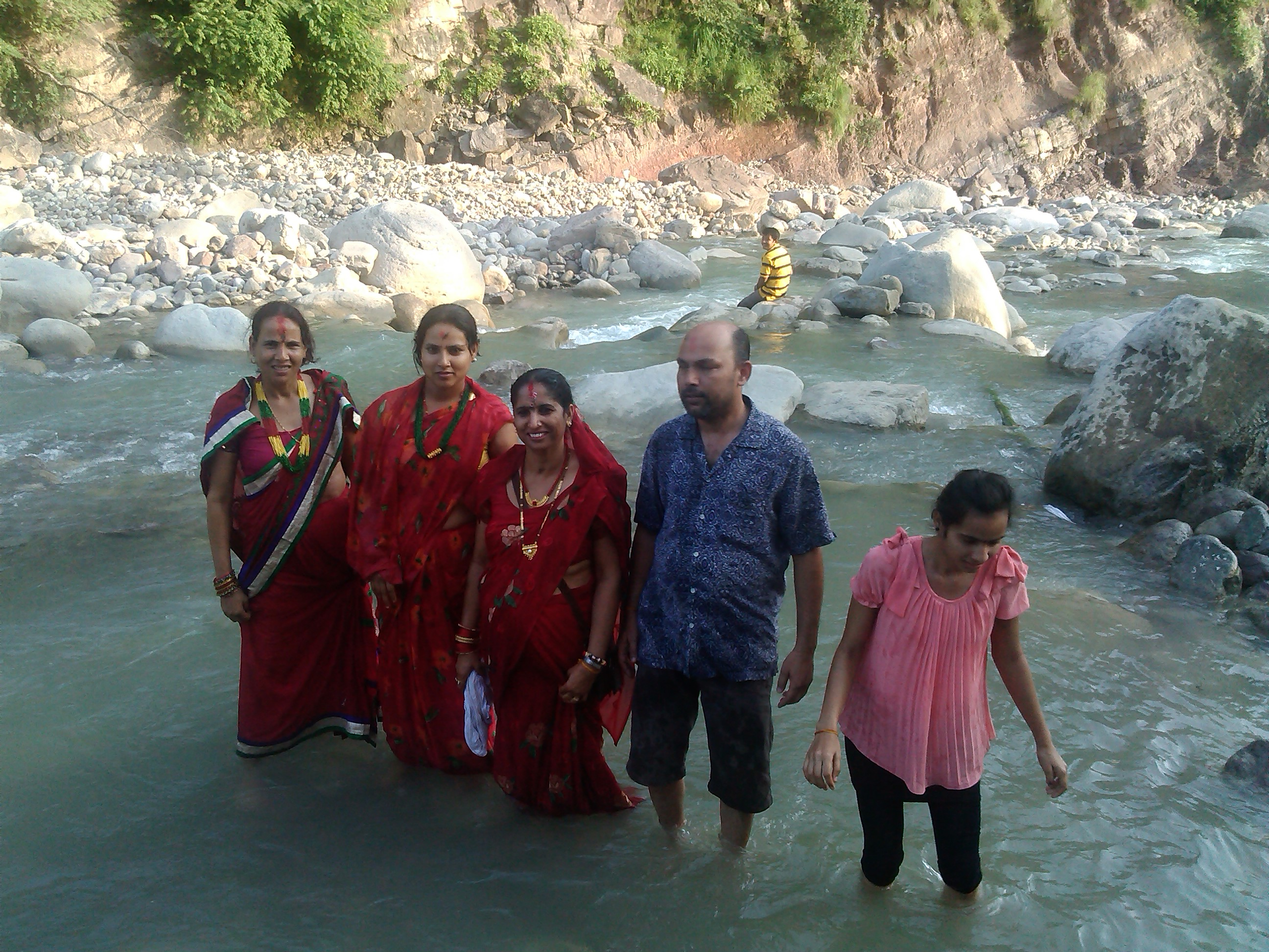 Godawari river at Kailali district.